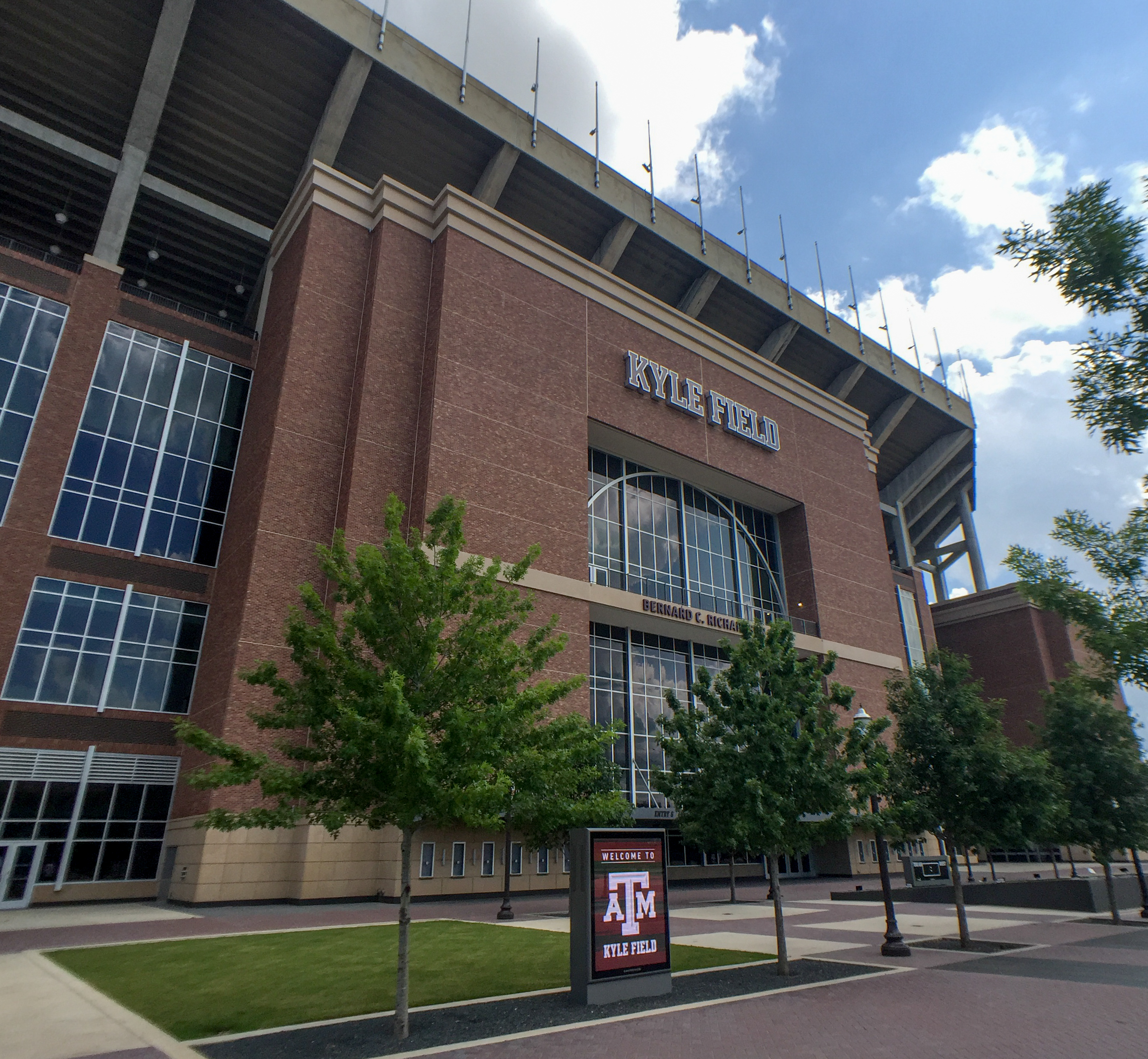 North Side of Kyle Field at Texas A&M University Aggie Football